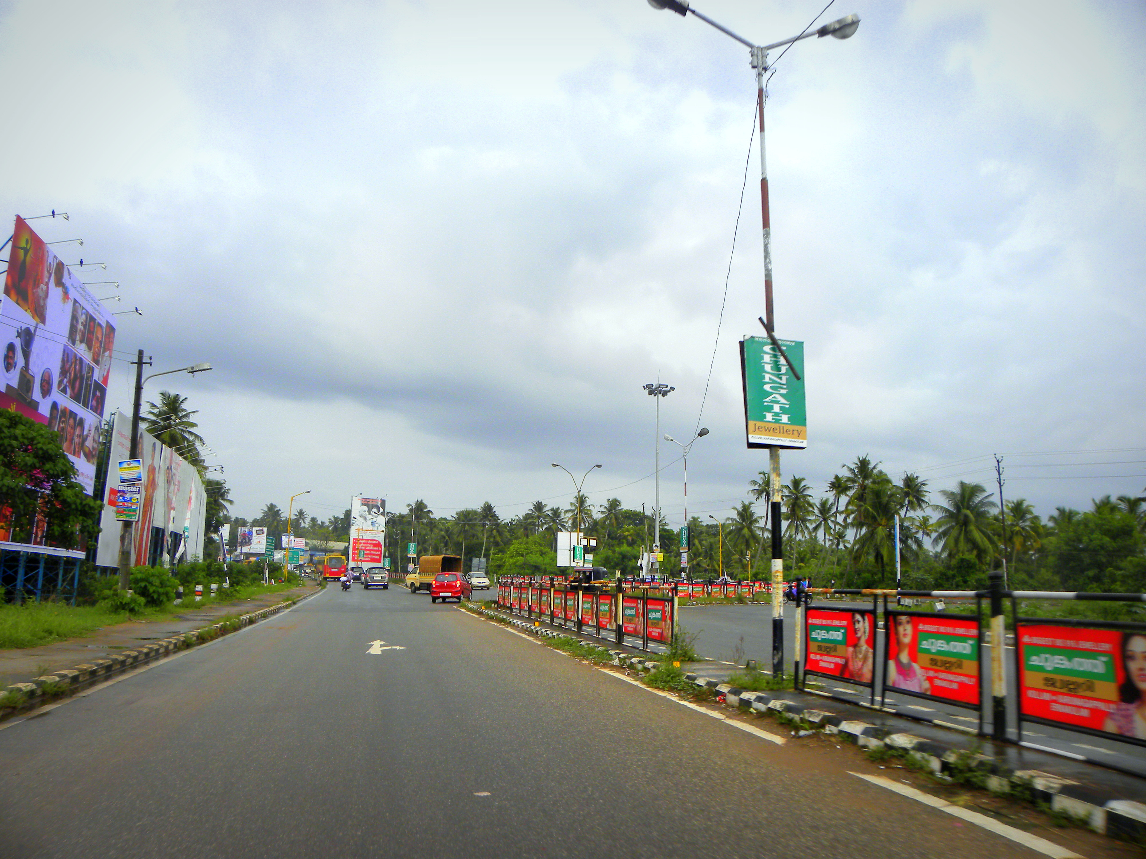 Kollam Bypass is ending at Mevaram in the south